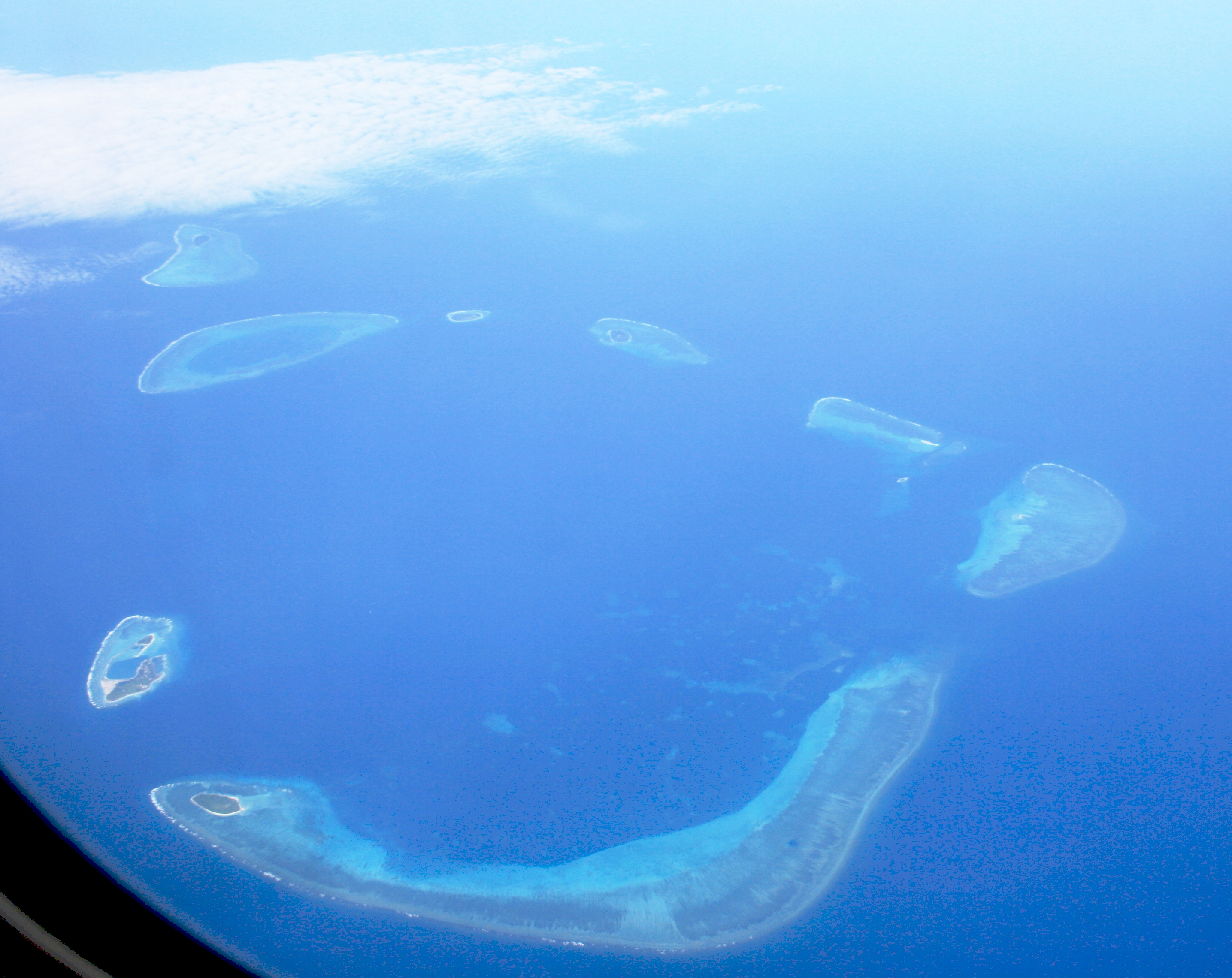 Took this on my flight from Hong Kong to Singapore